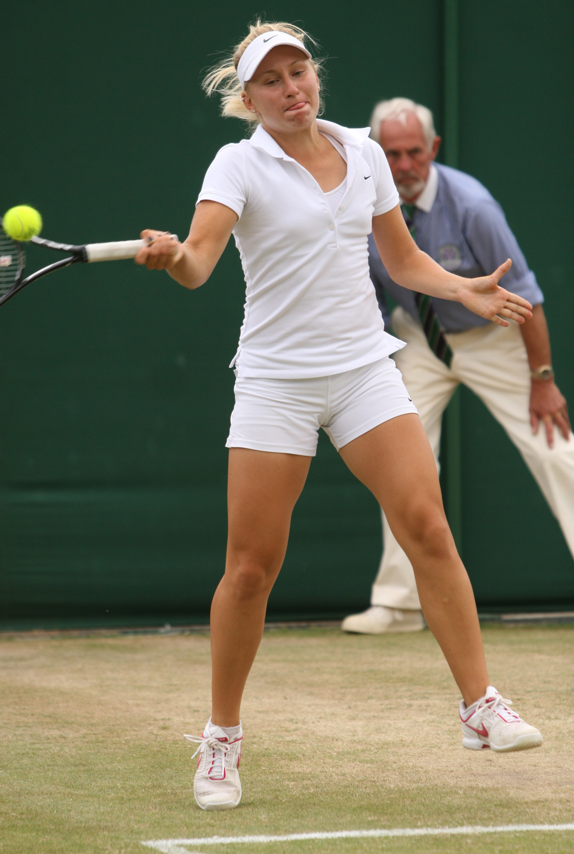 Daria Gavrilova playing in the girls doubles second round at Wimbledon on 1st July 2010